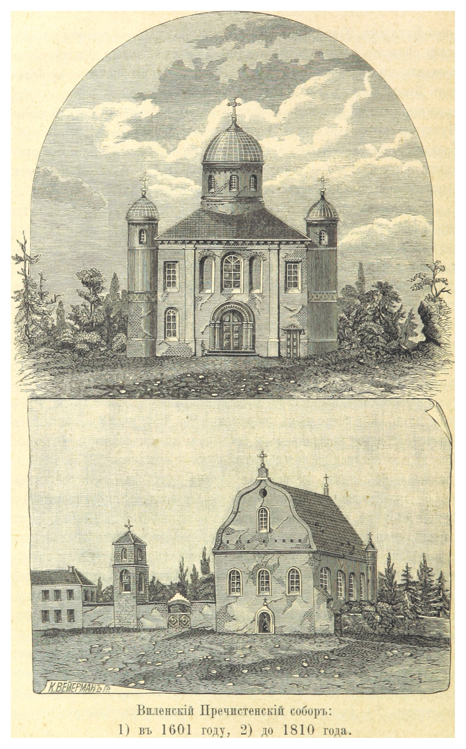 Orthodox Cathedral of the Dormition of the Theotokos in Vilnius